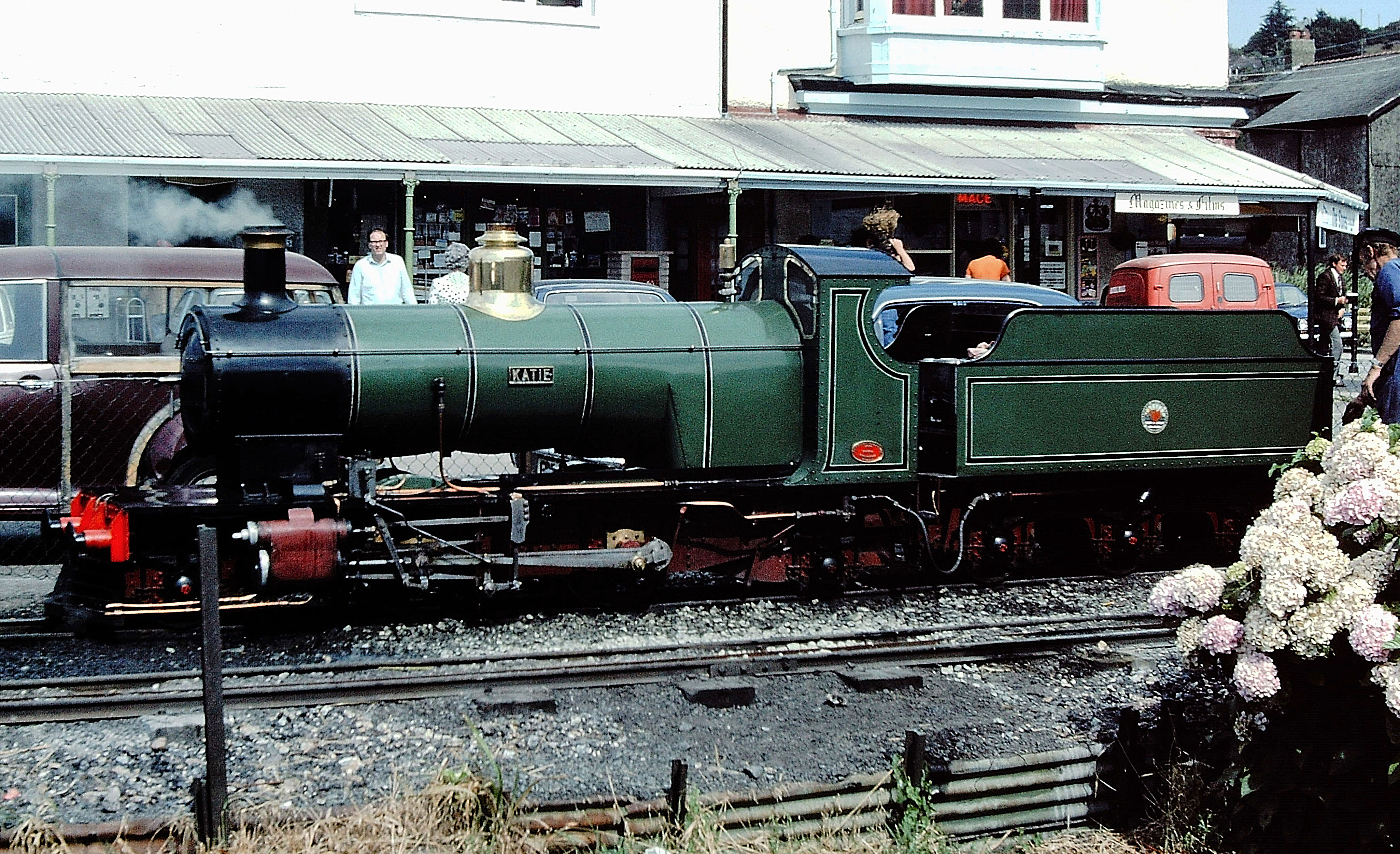 Katie Fairbourne Railway 1976